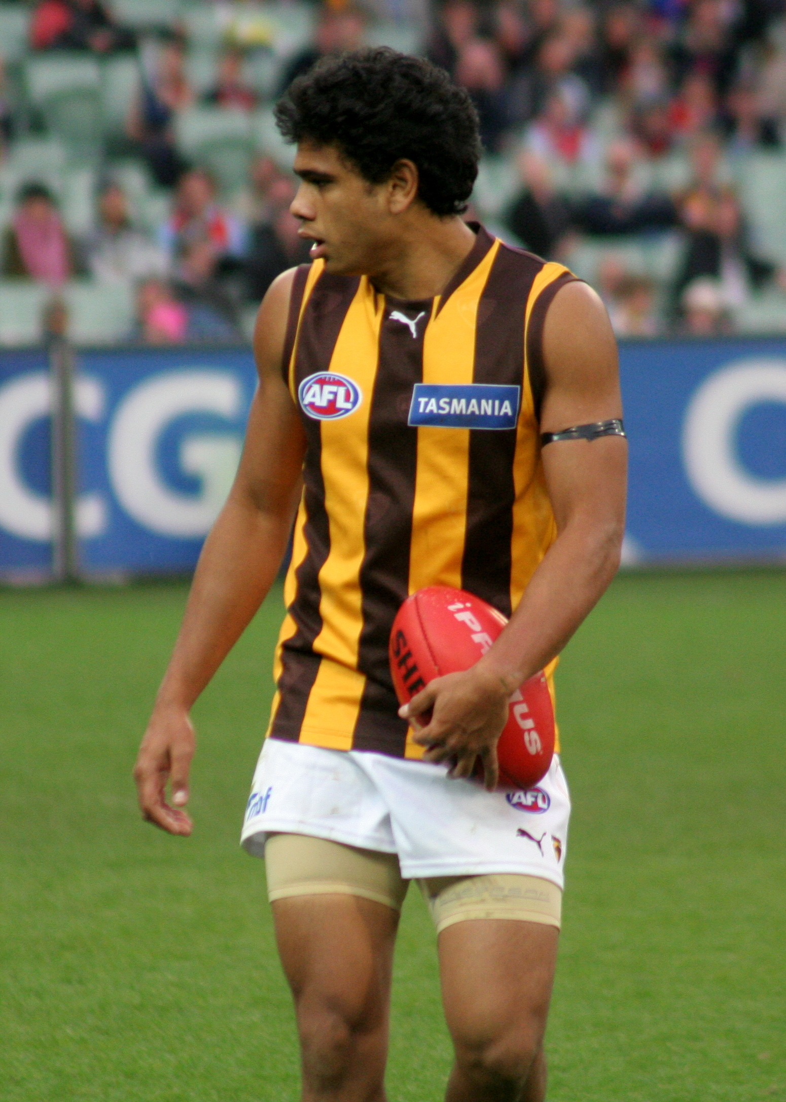 Cyril Rioli in May 2008